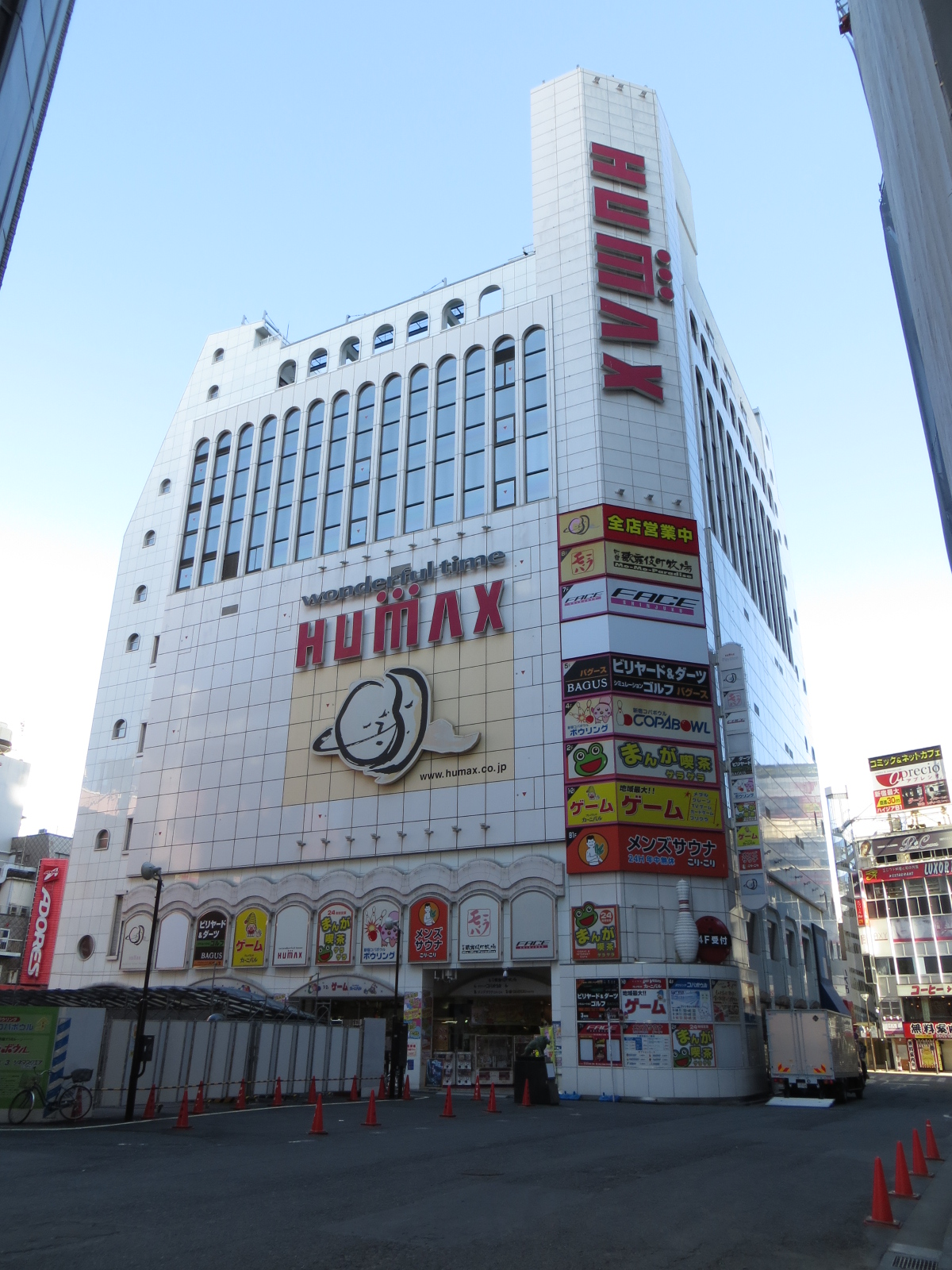 Humax pavilion (entertainment building of Shinjuku), Kabukichō, Tokyo.